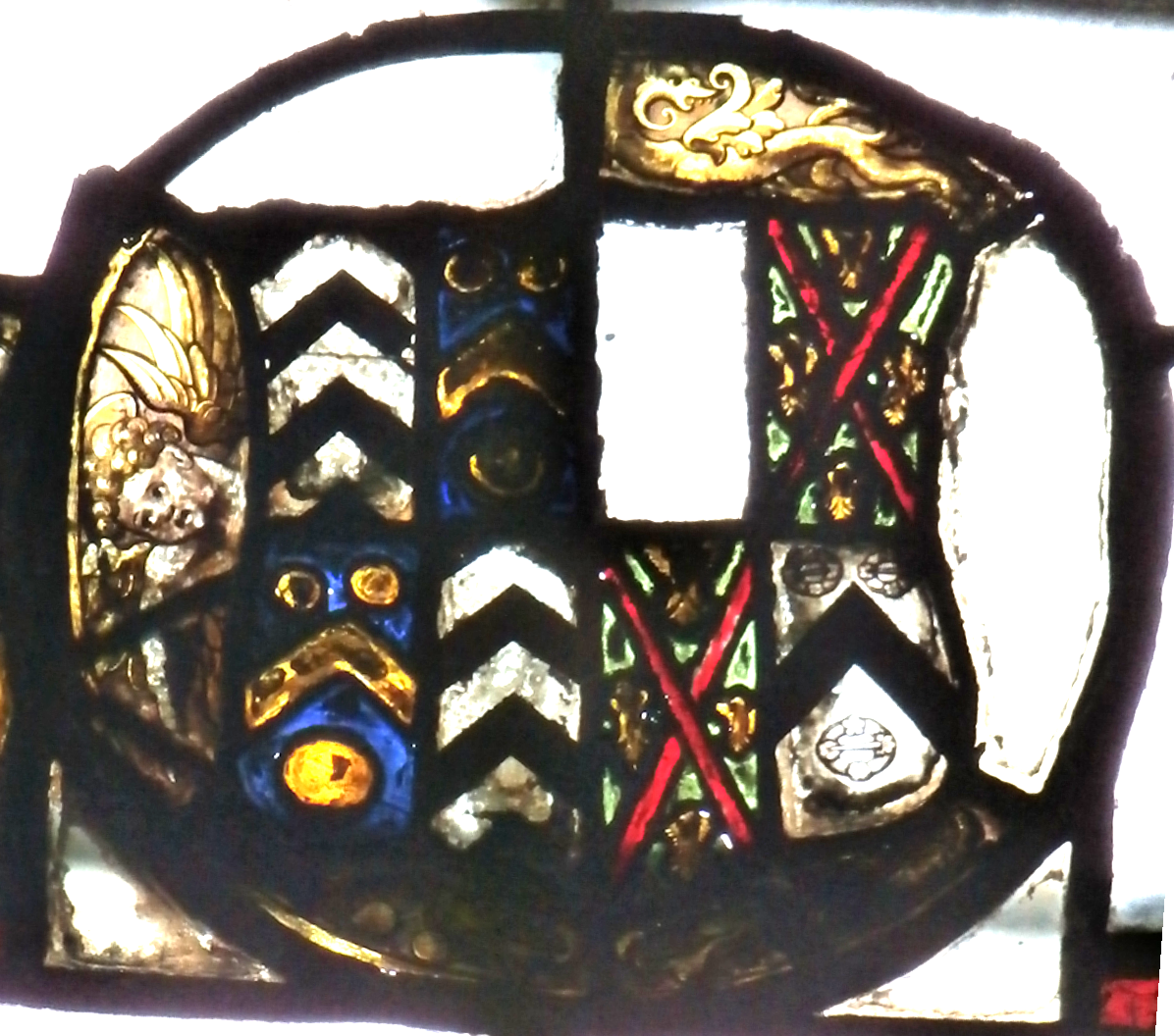 Mediaeval stained glass in Selworthy Church, Somerset (east window of north aisle) showing arms of Lansladron (Sable, three chevronels argent) quartering Pellor (Azure, a chevron or between three bezants) impaling Argent, a chevron sable between three buckles of the first (unknown family) quartering Leigh (Vert, a saltire gules between four eaglets displayed or). See: Hancock, Frederick, The Parish of Selworthy in the County of Somerset, Taunton, 1897, p.189[1]: "In the east window of the north aisle of Selworthy church is a coat of arms' quarterly 1 and 4: arg. three chevrons sable (the colours curiously enough are wrong and should be reversed) 2 and 3: az. three pellets or (Pellor) Impaling — 1: gone 2 and 3: vert, St. Andrew's cross gules between four eagles displayed gules (Leigh) 4: arg. three buckles ? Leigh Barton, near Tiverton, passed to the Arundell family by a marriage of an Arundell with the heiress of that estate, and it is still the property of Sir Thomas Acland."